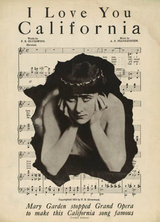 Cover of the sheet music for I Love You, California, lyrics by Francis Bernard Silverwood (1863-1924), music by Abraham Franklin Frankenstein (1873-1934), published by Hatch & Loveland, Music Printers, Los Angeles, copyright 1913 by A.F. Frankenstein